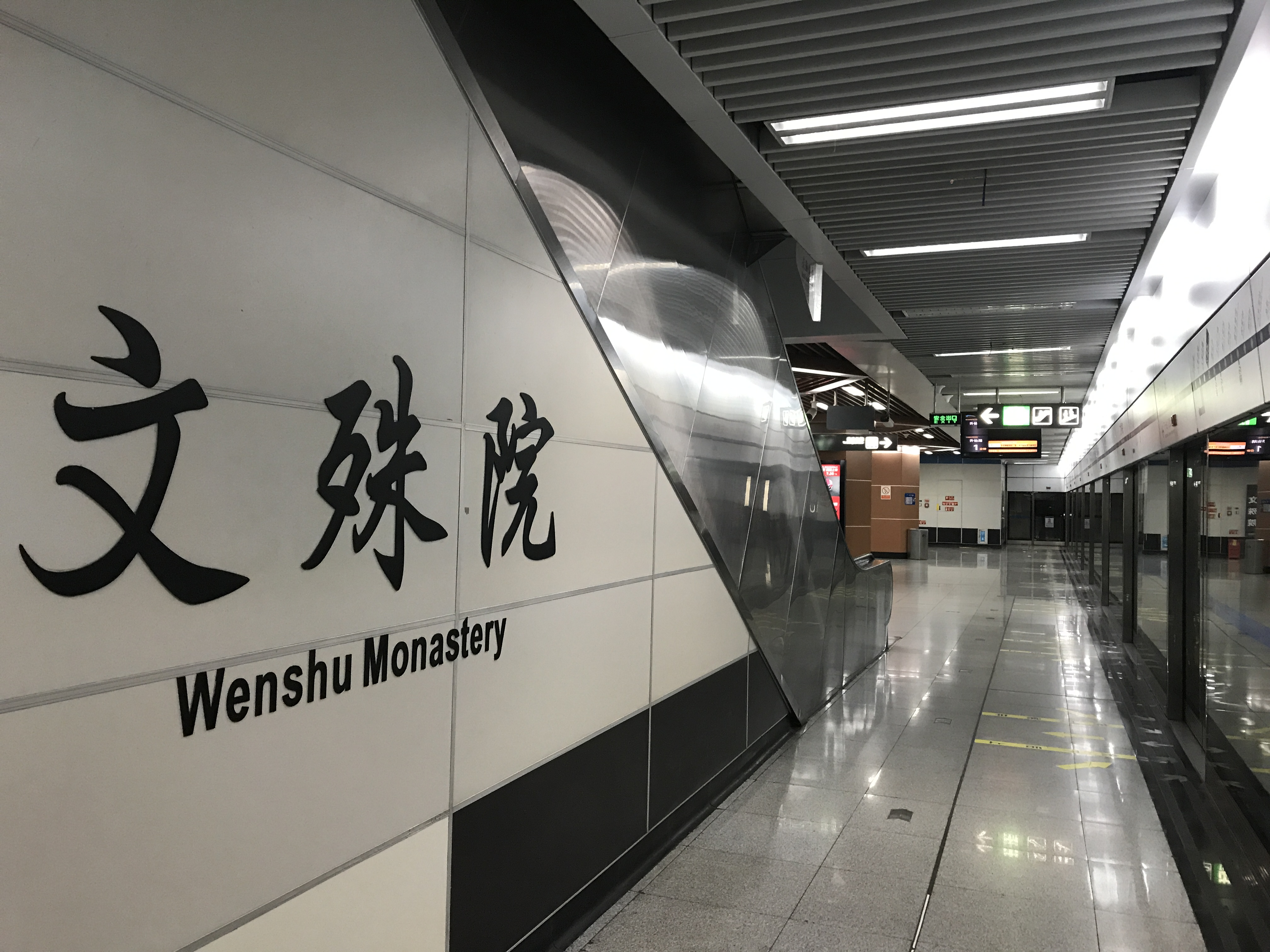 Platform of Wenshu Monastery Station, Chengdu Metro